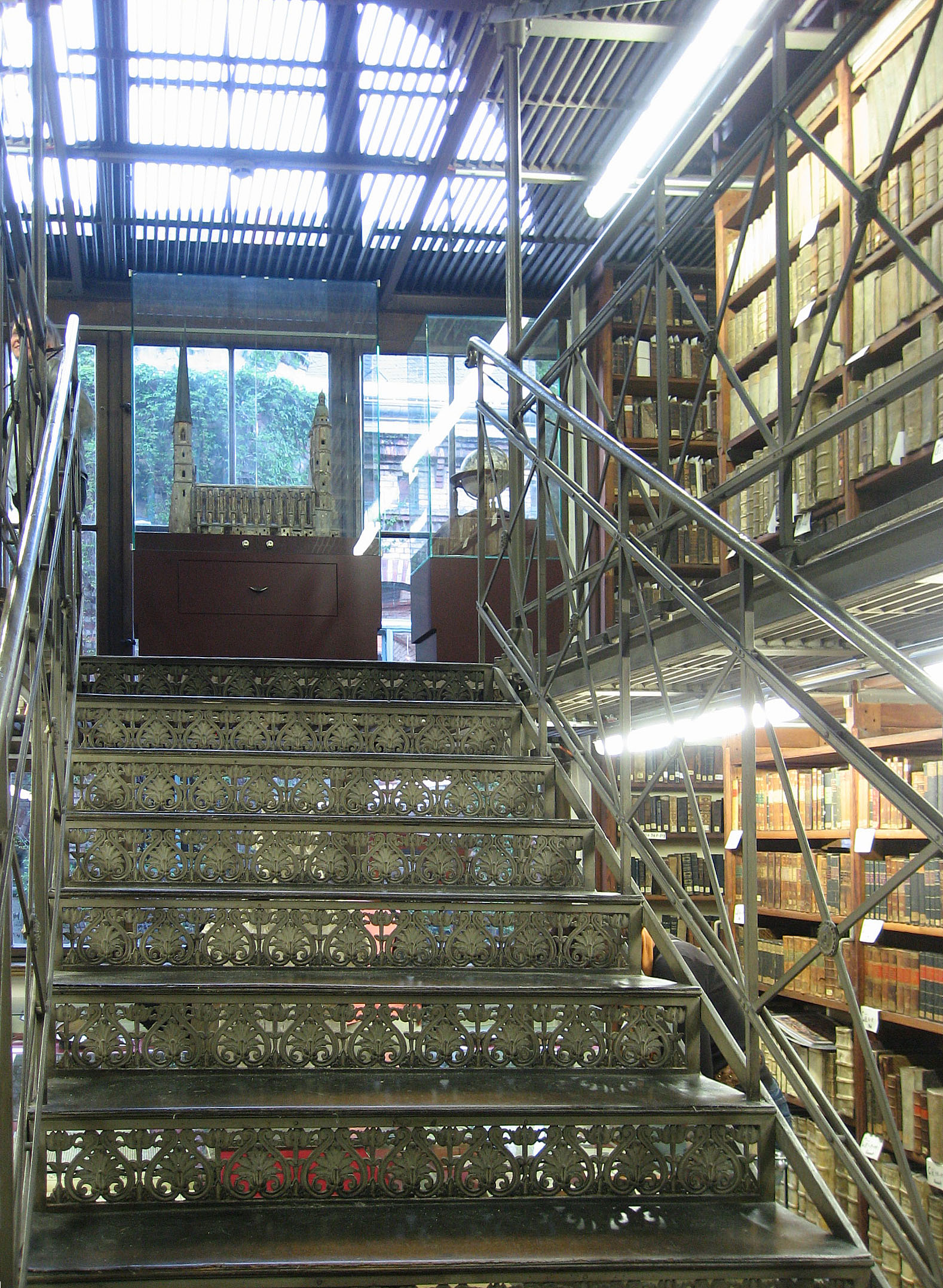 Inside from the Library “Marienbibliothek” in Halle (Saale)